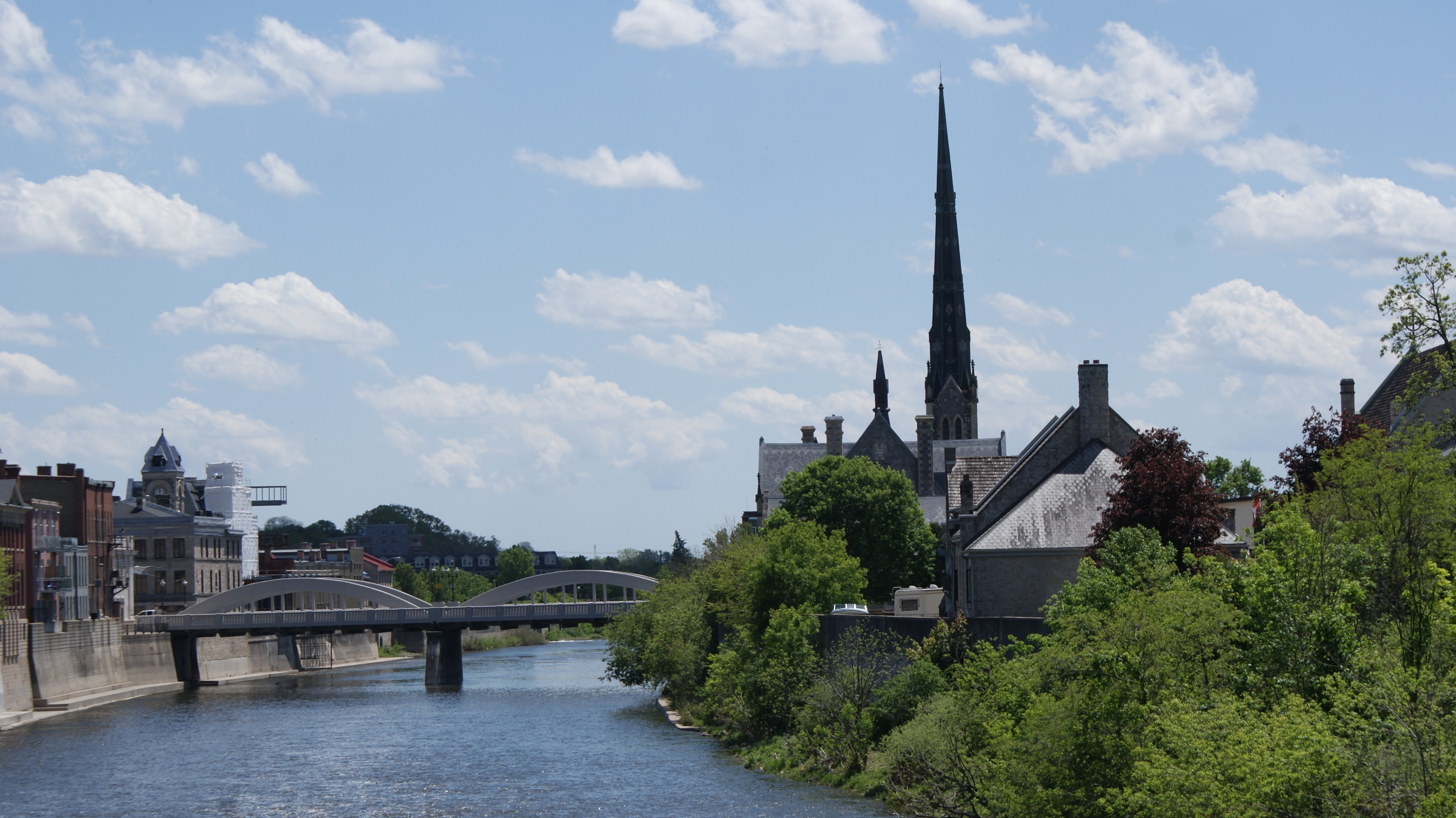 19th century church on teh Grand Rover in Cambridge, Ontario, Canada